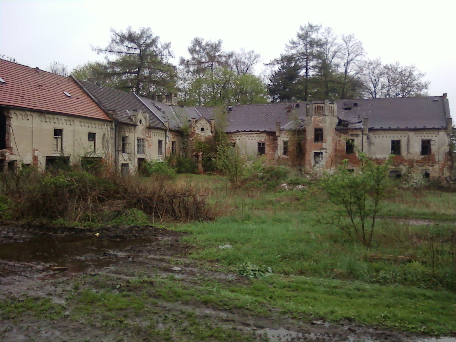 Zámek Kvasetice (stav v roce 2013)